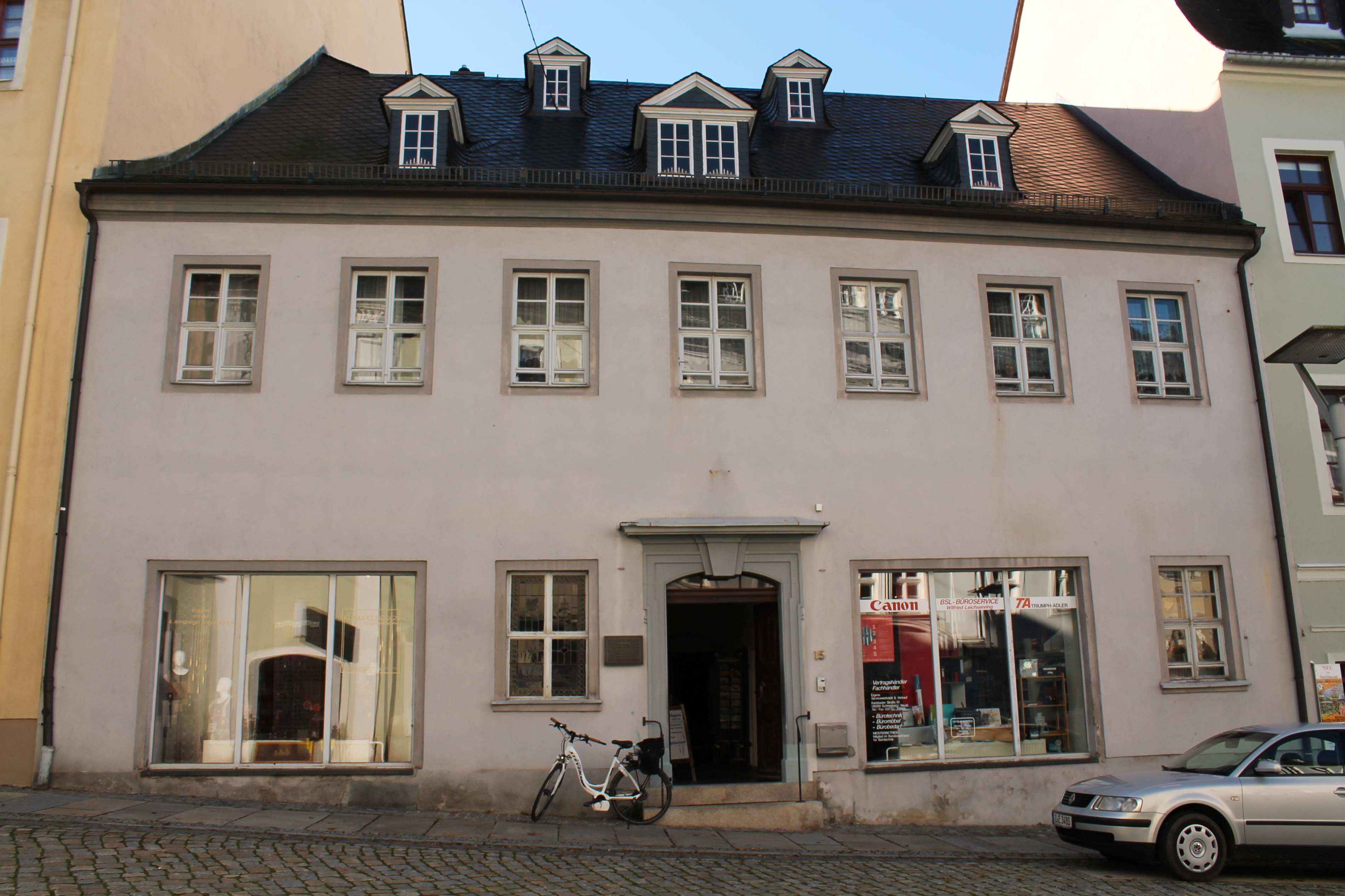 House of Schnorr von Carolsfeld family in Schneeberg, Ore Mountains, Saxony, Germany.